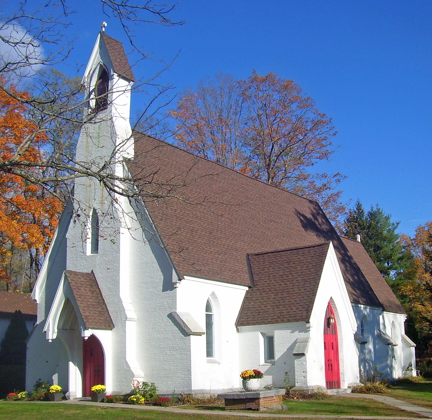 St. Thomas' Episcopal Church, Amenia Union, NY, USA, designed by Richard Upjohn